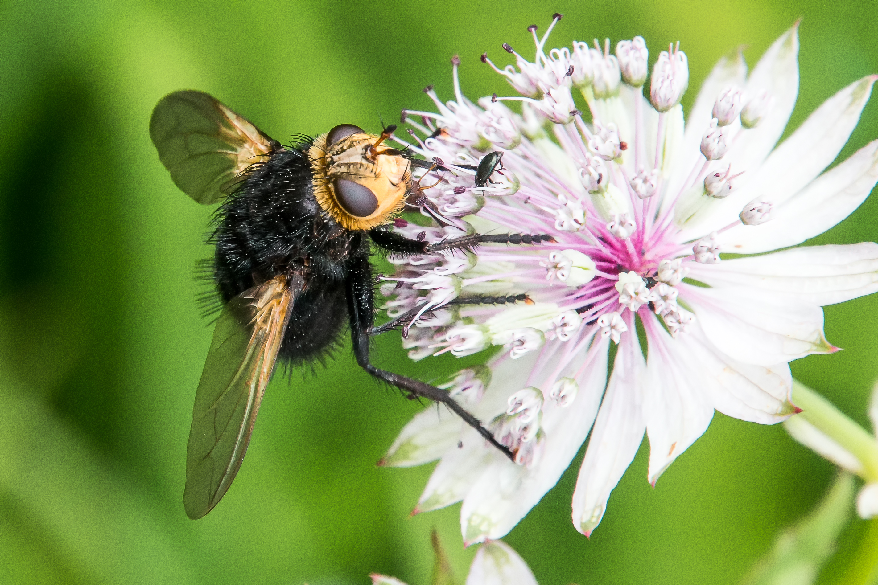 Large European fly. Tachina Grossa